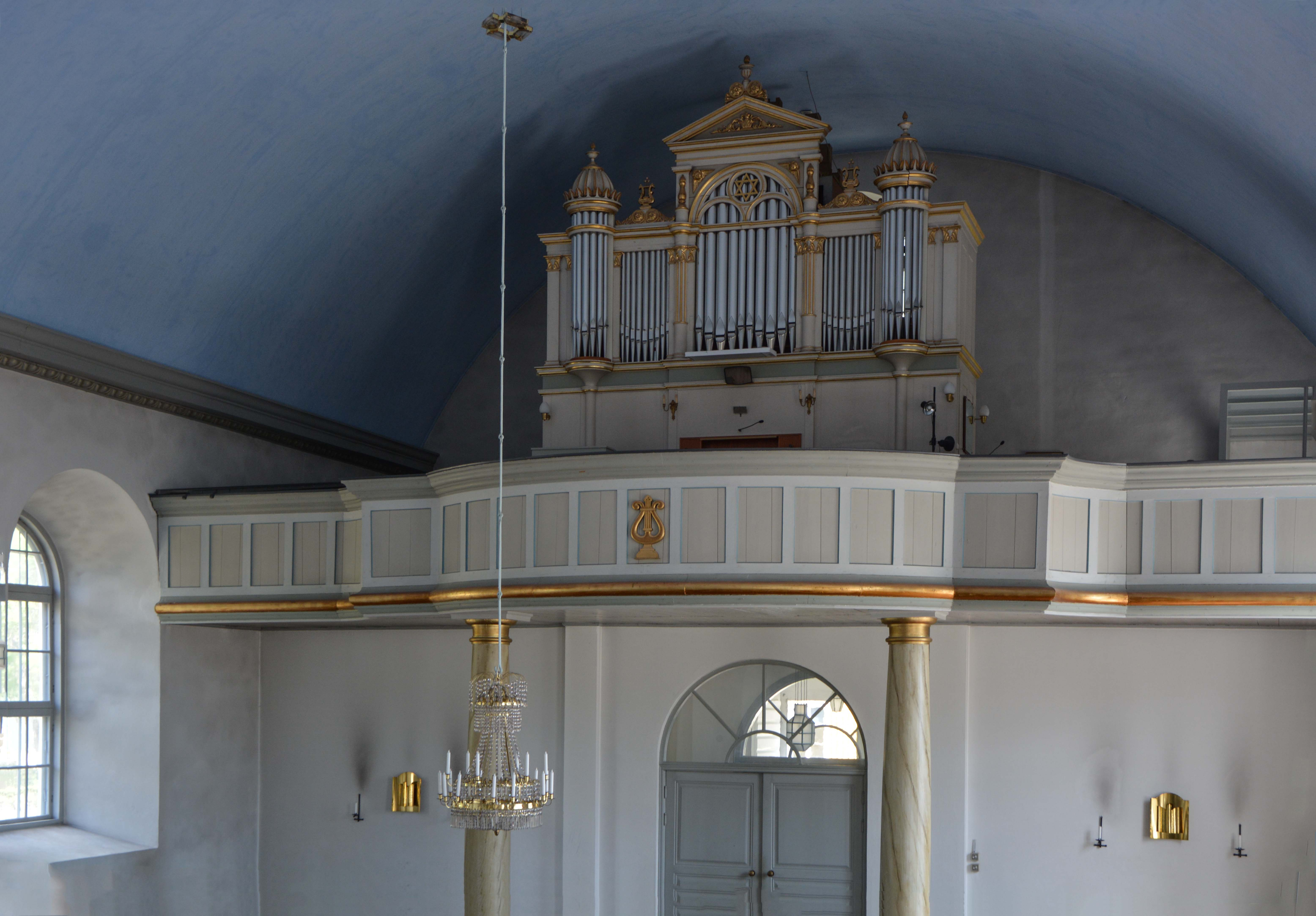 Jämjö Church.The organ